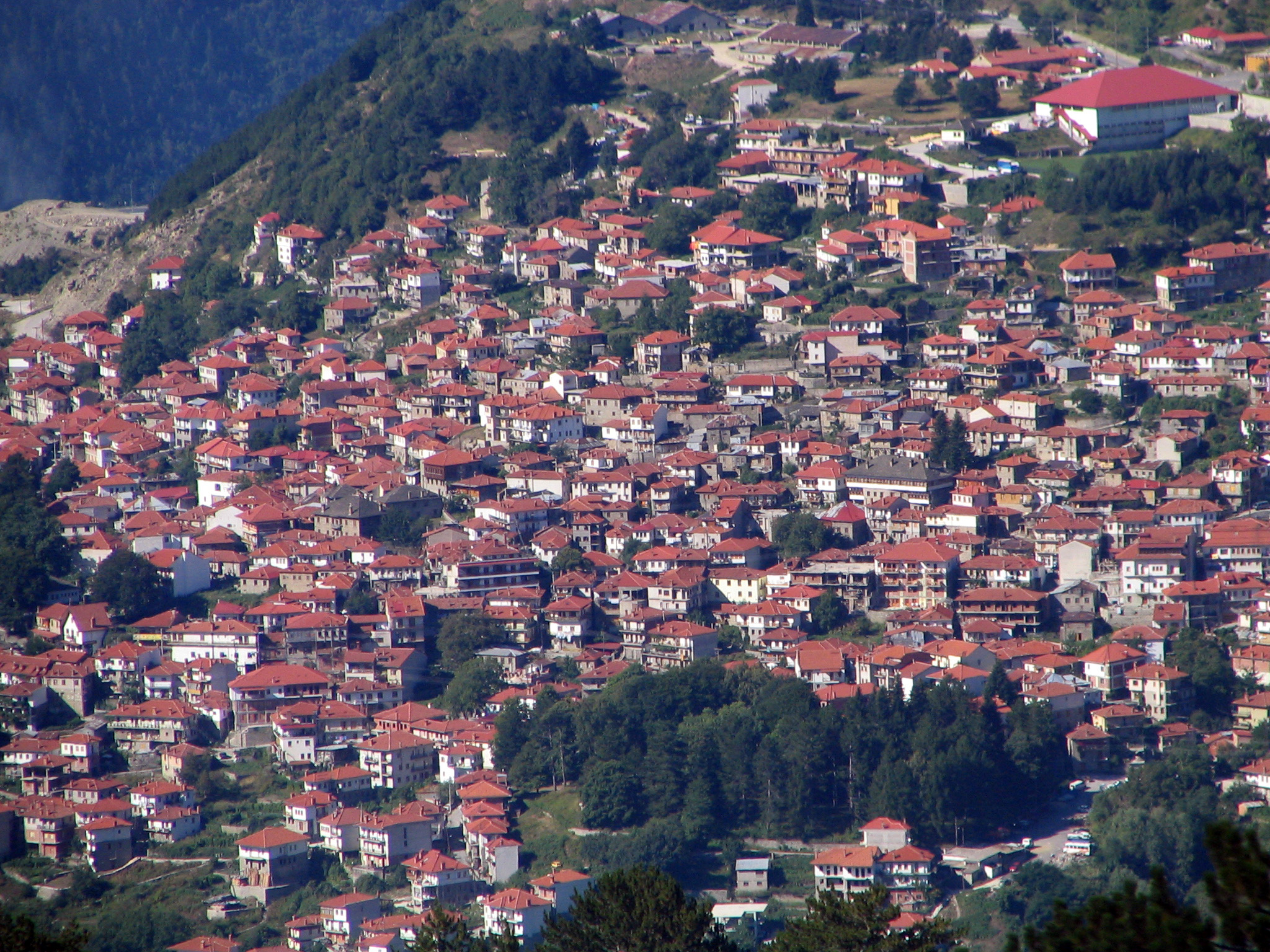 Metsovo, a town in the Pindus Mountains, Greece